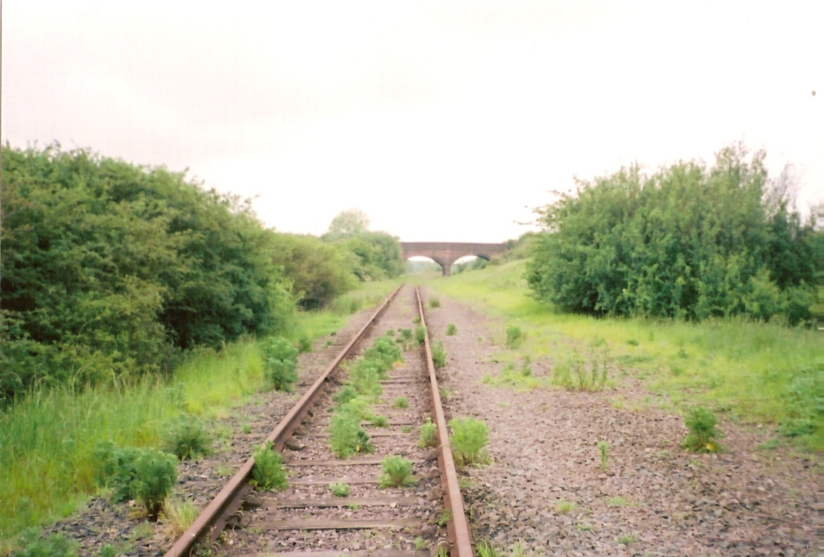 Swanbourne, showing the dilapidated condition of the Varsity Line track there